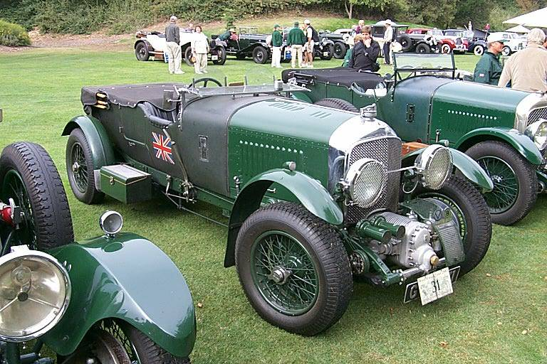 Bentley 4½-litre supercharged 4-seater tourer 1931 delivered September 1931 Chassis MS3938 Engine MS3940 Reg GT 8771